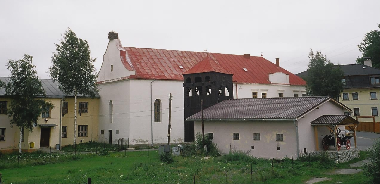 Protestant church in the background and old firefighters house in Stara Lesna